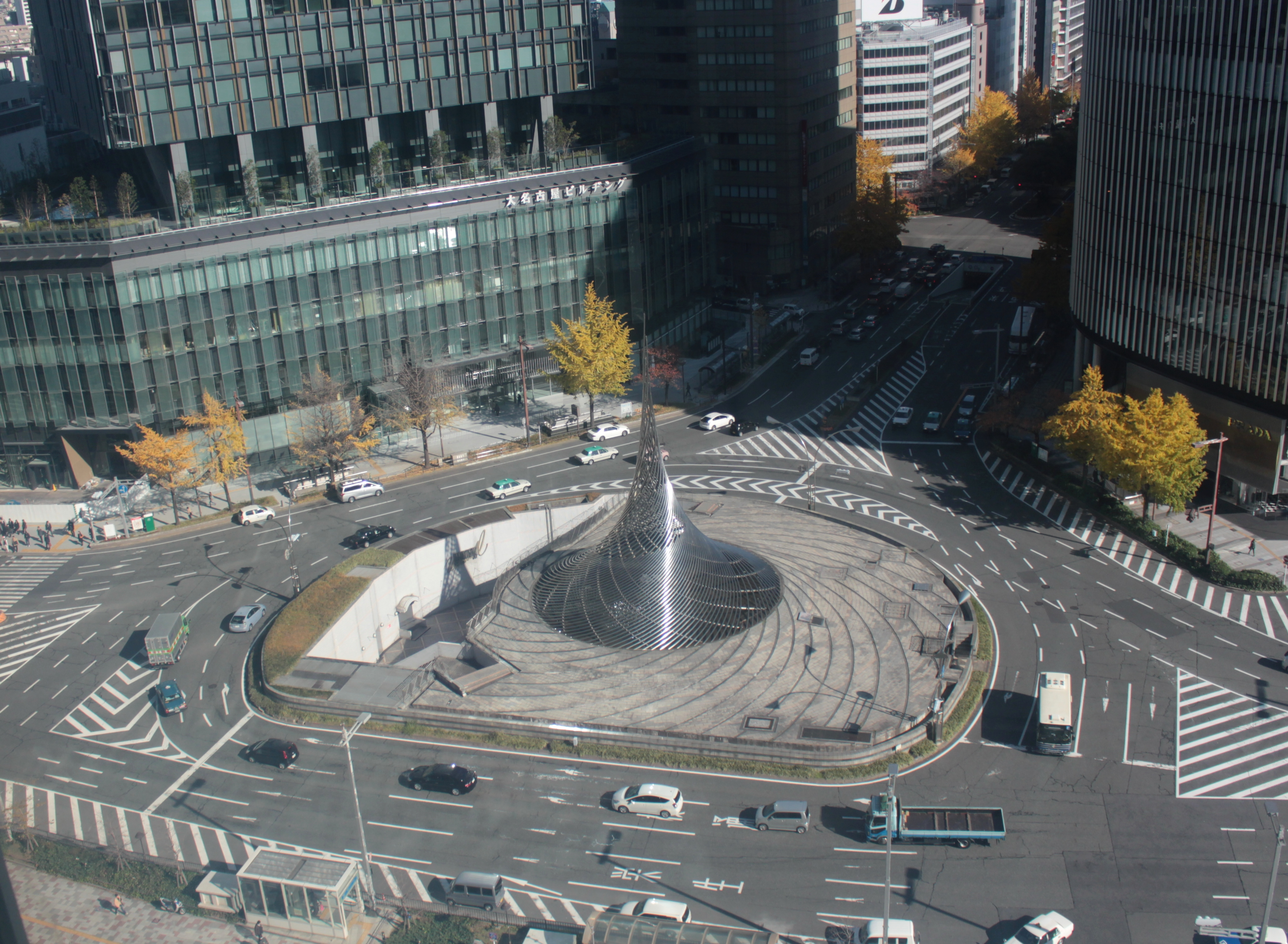 Hishō (monument) and traffic circle seen from JR Central Towers in Meieki, Nakamura-ku, Nagoya, Aichi prefecture, Japan.